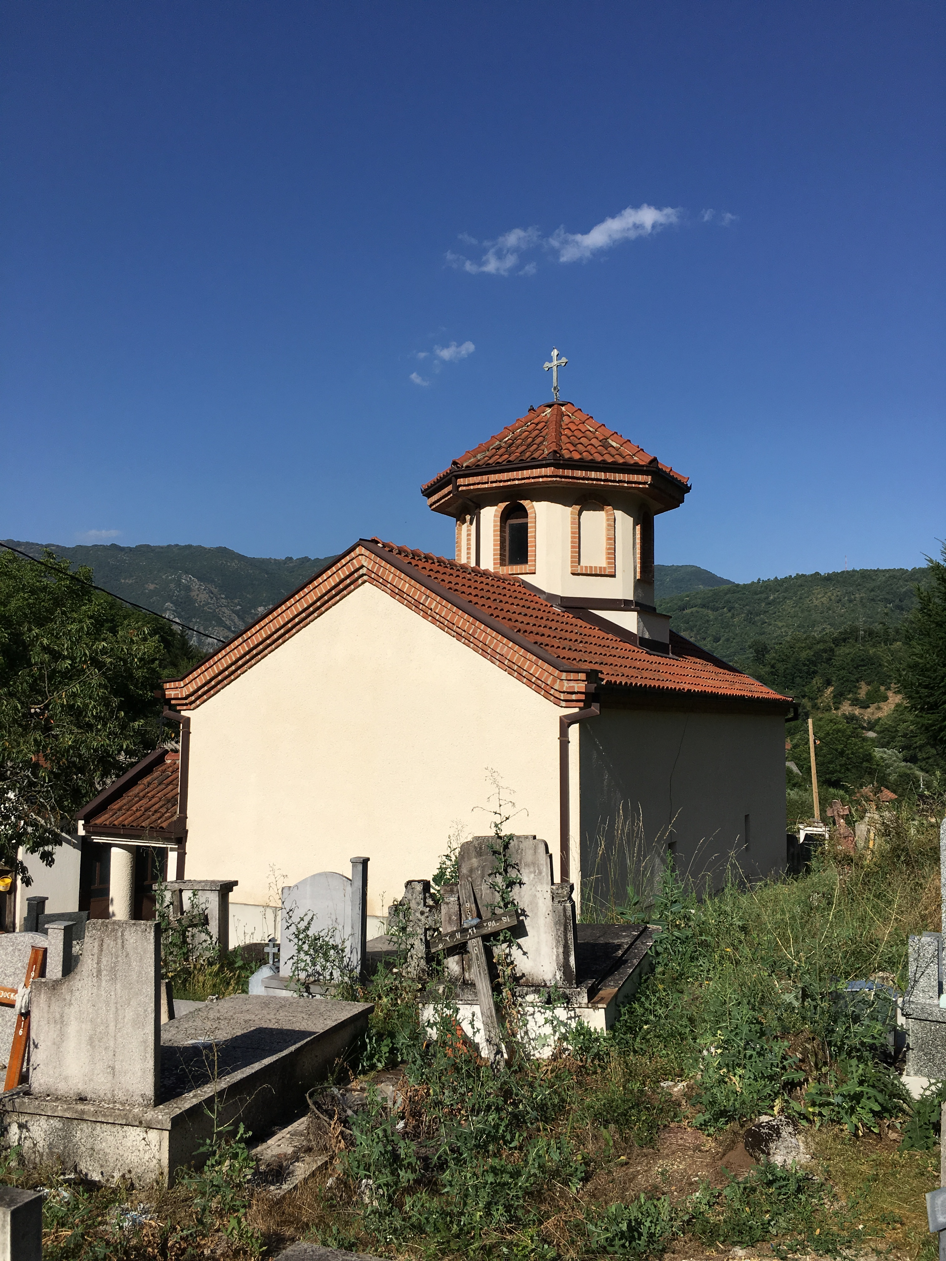 St. Nicholas Church in the village of Piskupština